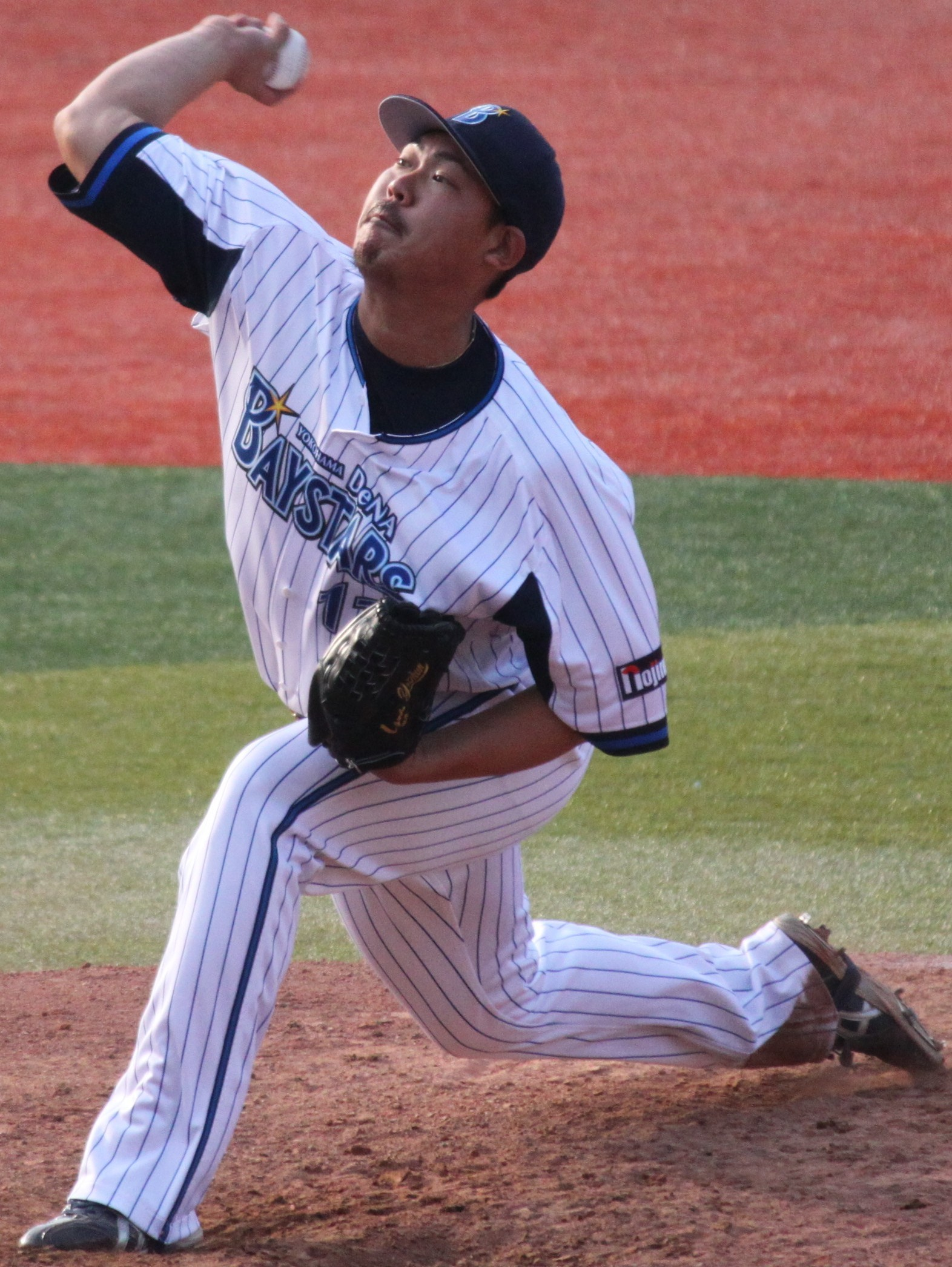 Shun Yamaguchi, pitcher of the Yokohama DeNA BayStars, at Yokohama Stadium.